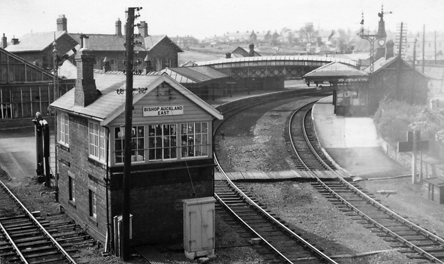 Bishop Auckland Station. This view was taken with NZ2029 : Bishop Auckland Station, which is on the left; it shows the lines towards Darlington, Stockton and Ferryhill curving to the right. The third side of the triangular station is ahead, behind the buildings.